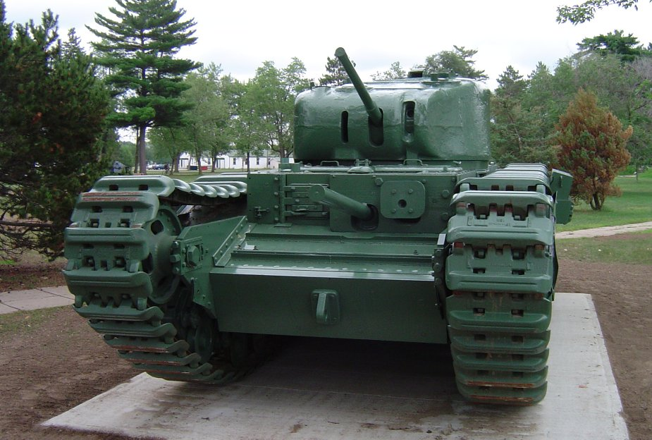 Churchill I tank